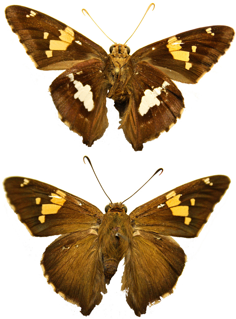 A Silver-spotted Skipper (Epargyreus clarus).